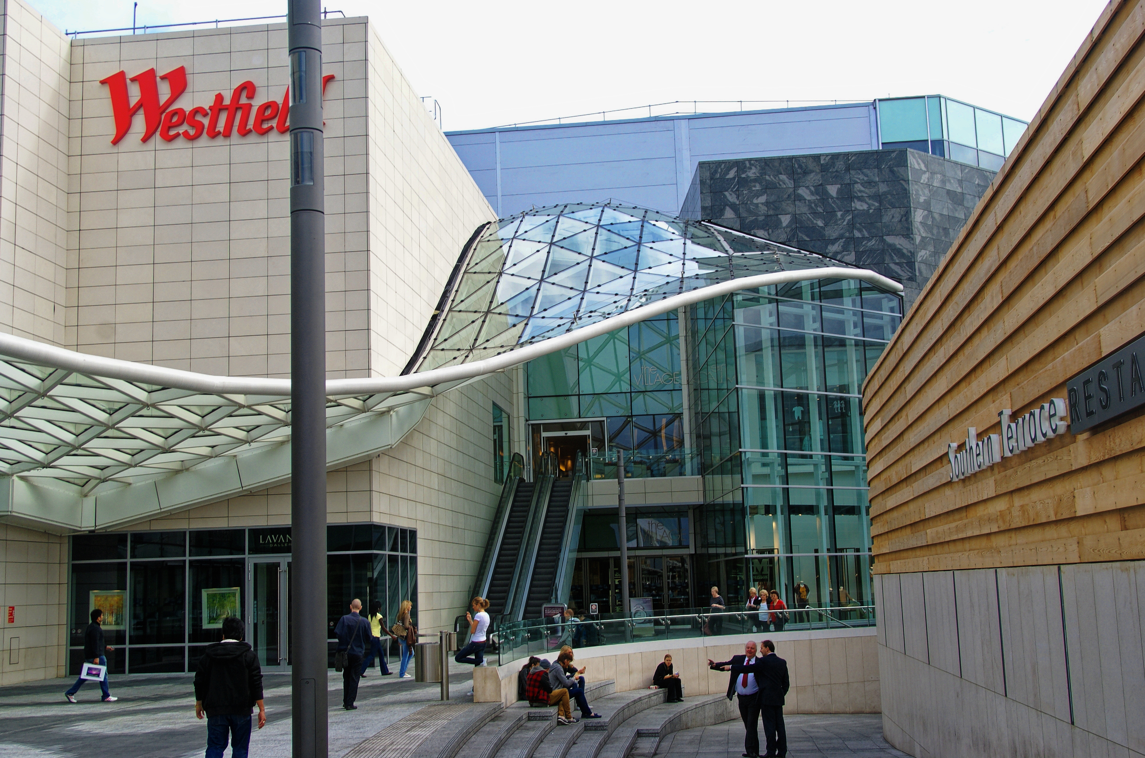 London - Westfield Shopping Centre - View East